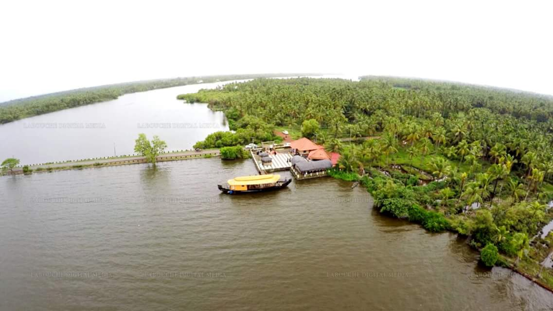 സുന്ദര ദൃശ്യം